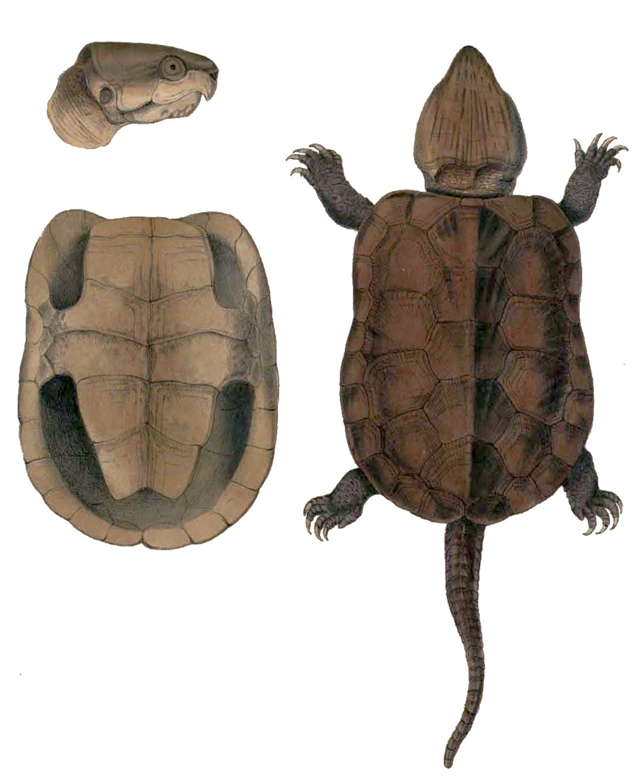 « Platysternon megacephalus » = Platysternon megacephalum (Big-headed turtle)